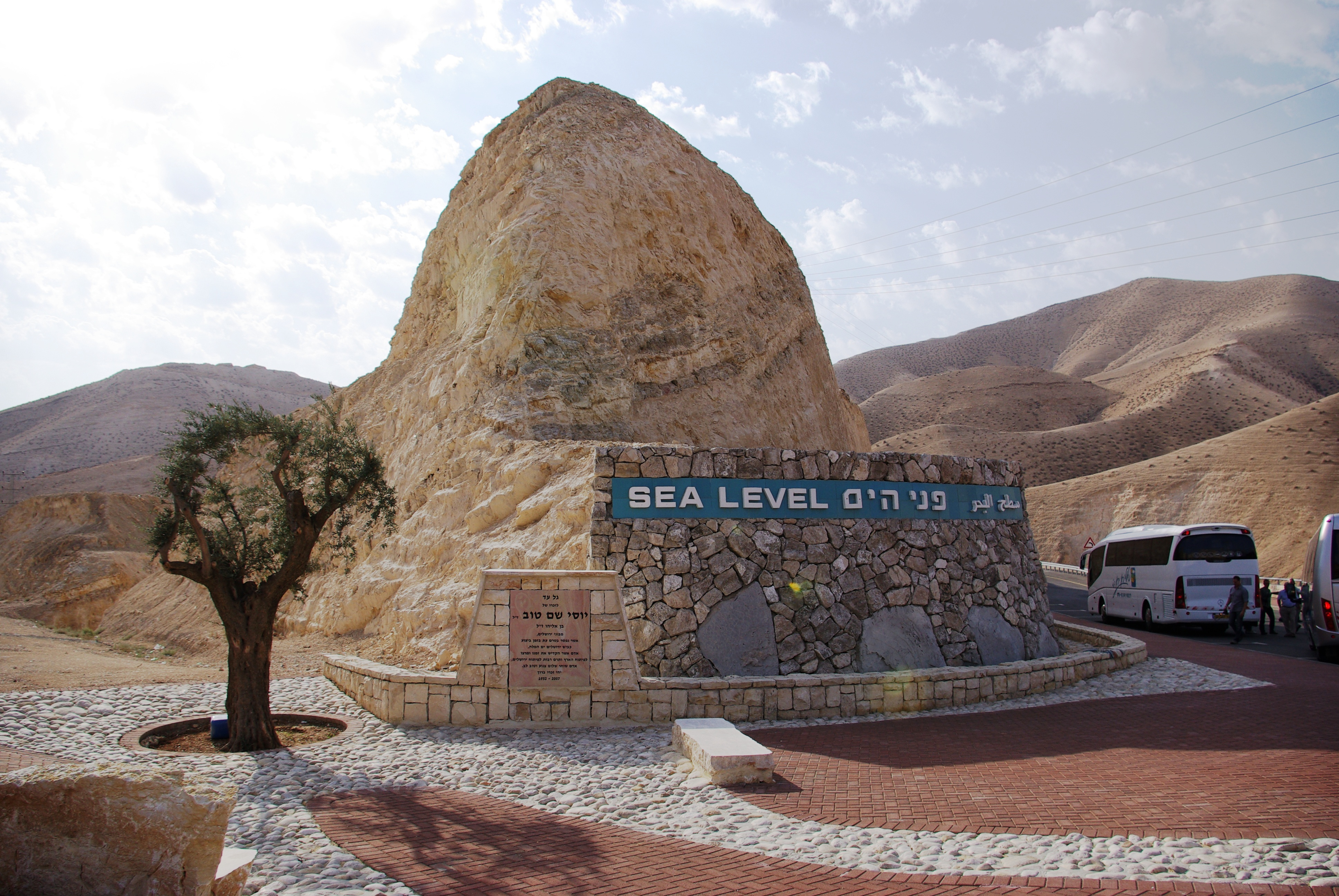 West Bank. Sea Level marker on the side of the road from Jerusalem to the Dead Sea